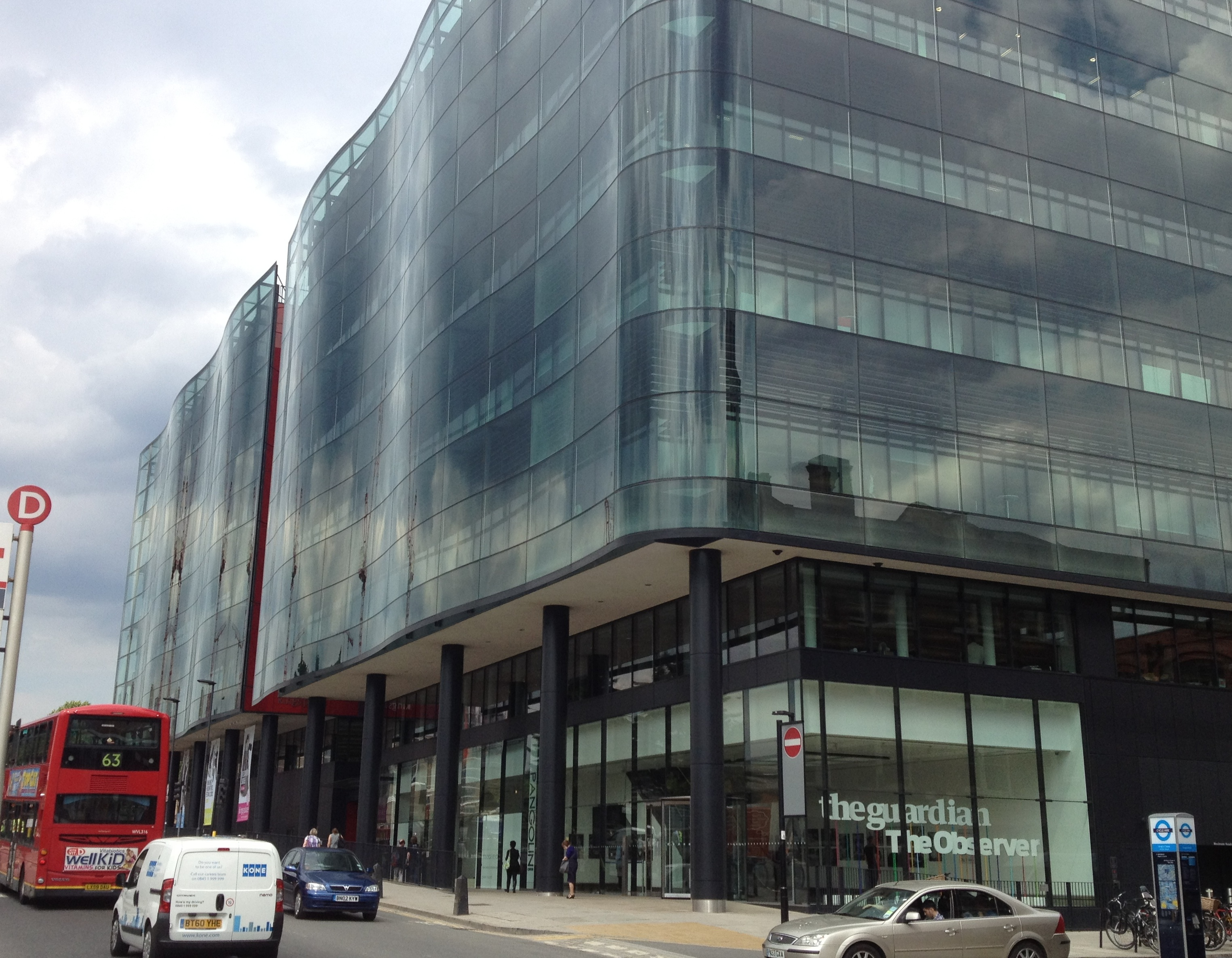 Building housing The Guardian newspaper, London England